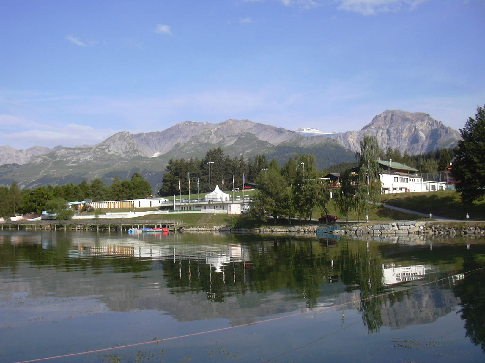 Golf Club Crans sur Sierre, Crans-Montana/Switzerland